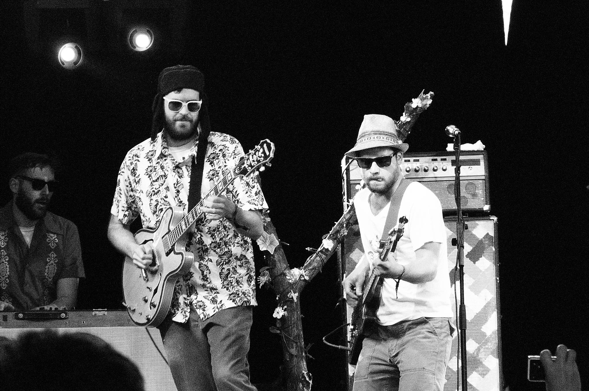 Dr. Dog performing at Coachella 2009